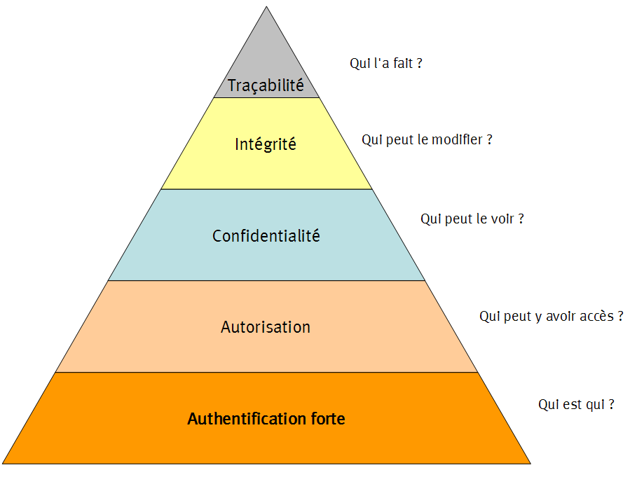 Pyramide Authentification Forte